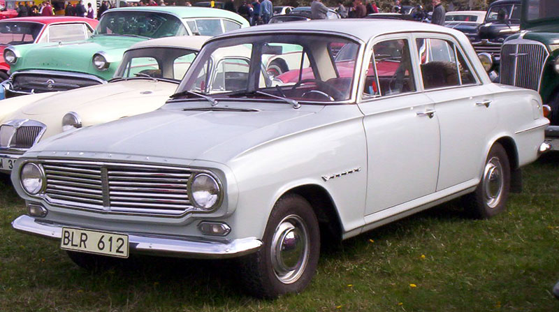 Vauxhall FBD Victor 4-Door Saloon 1963